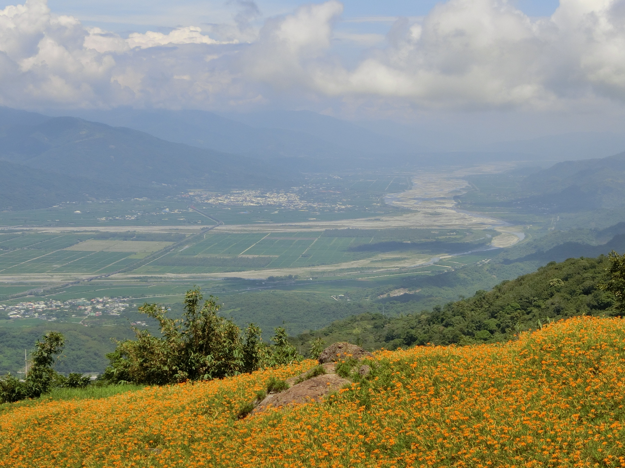 Looking north down Lakulaku River, Xiuguluan River and Yuli from Mount Liushishi.